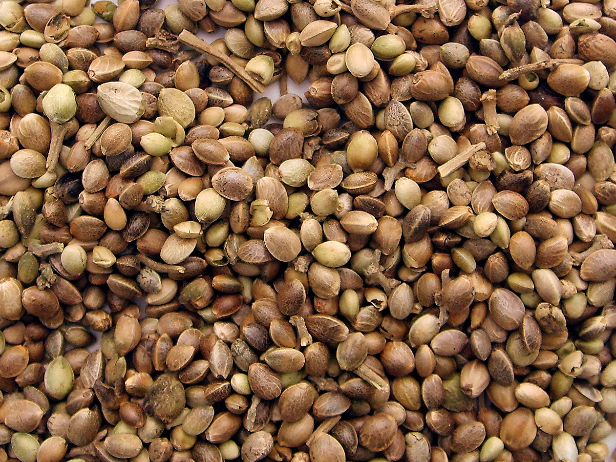 Marijuana seeds.